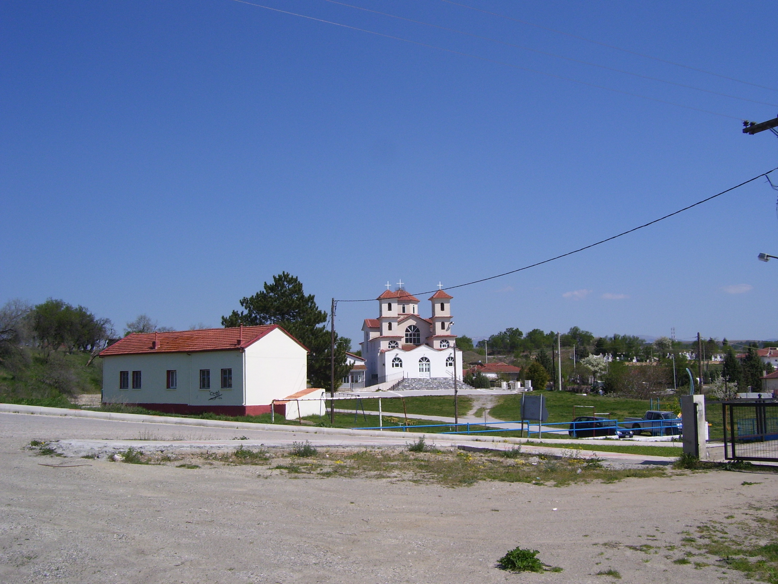 Church in the village of Sotiras, Florina Prefecture, Greece